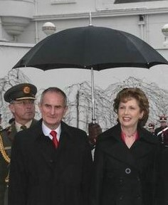 President Mary McAleese of Ireland and her husband Martin.